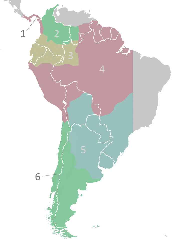 The audiencias of the Viceroyalty of Peru c.1650. Territorial divisions of the Viceroyalty of Peru as described by the laws compiled in the Recopilación of 1680.